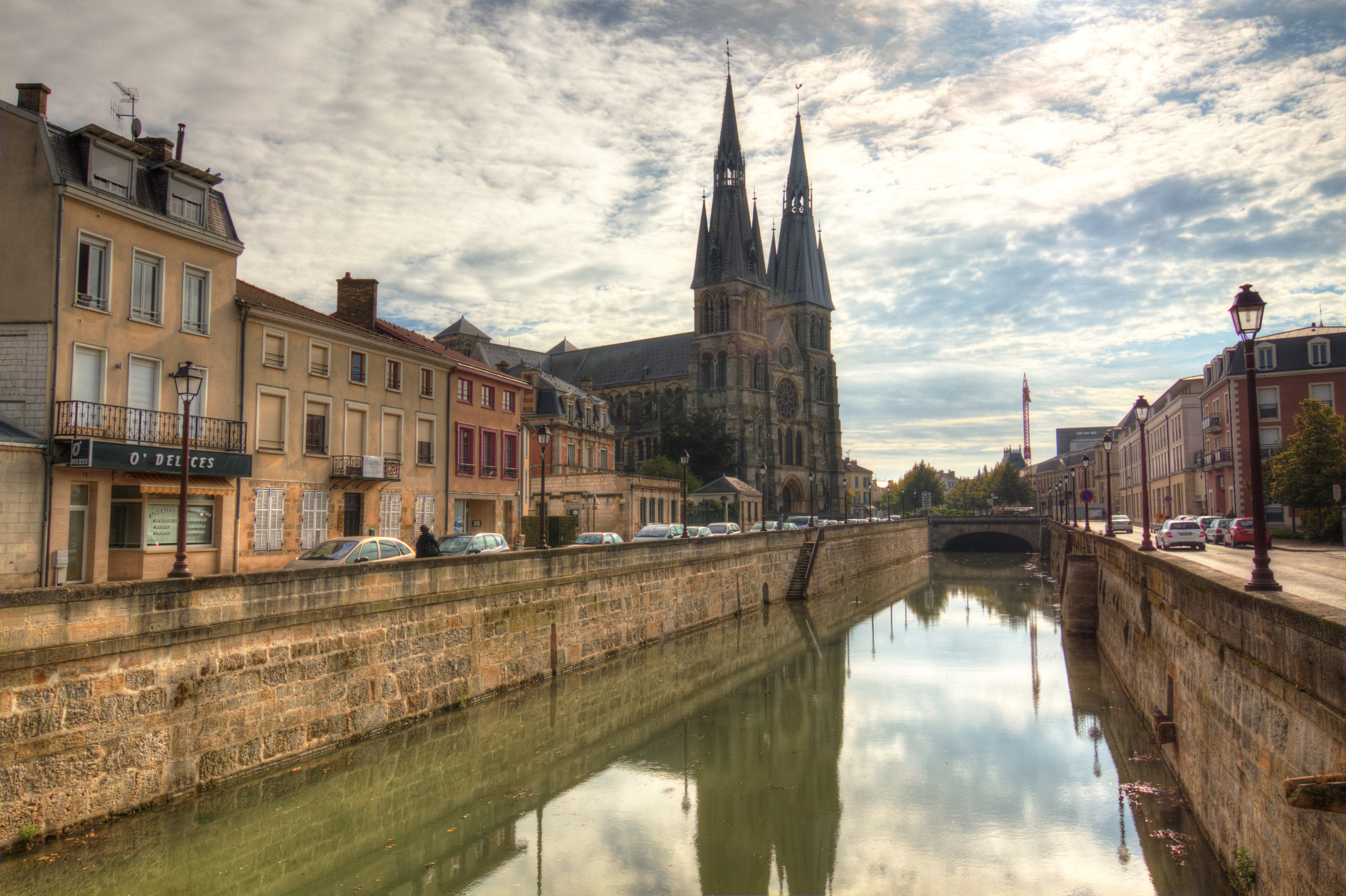 Façade of the Collegiate churche